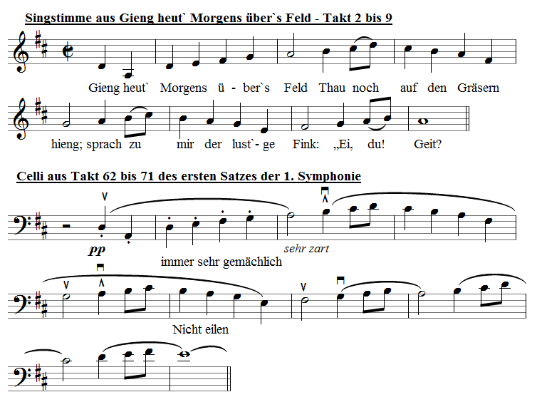 Theme from the first set of Gustav Mahler first symphony analog to a theme of "Lieder eines fahrenden Gesellen" also composed by Mahler